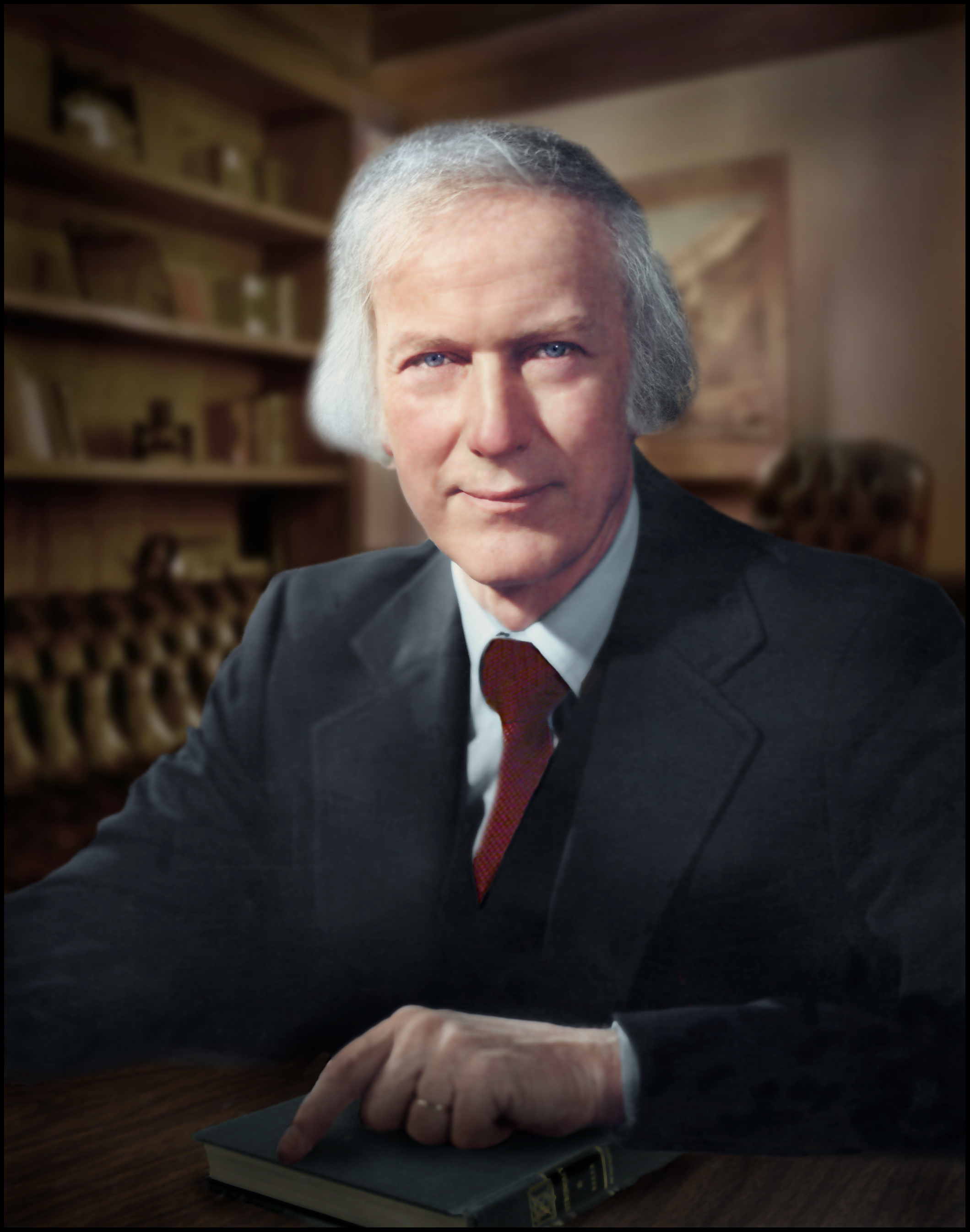 Arthur D. Code (1923 - 2009), Astronomer, 1981 portrait